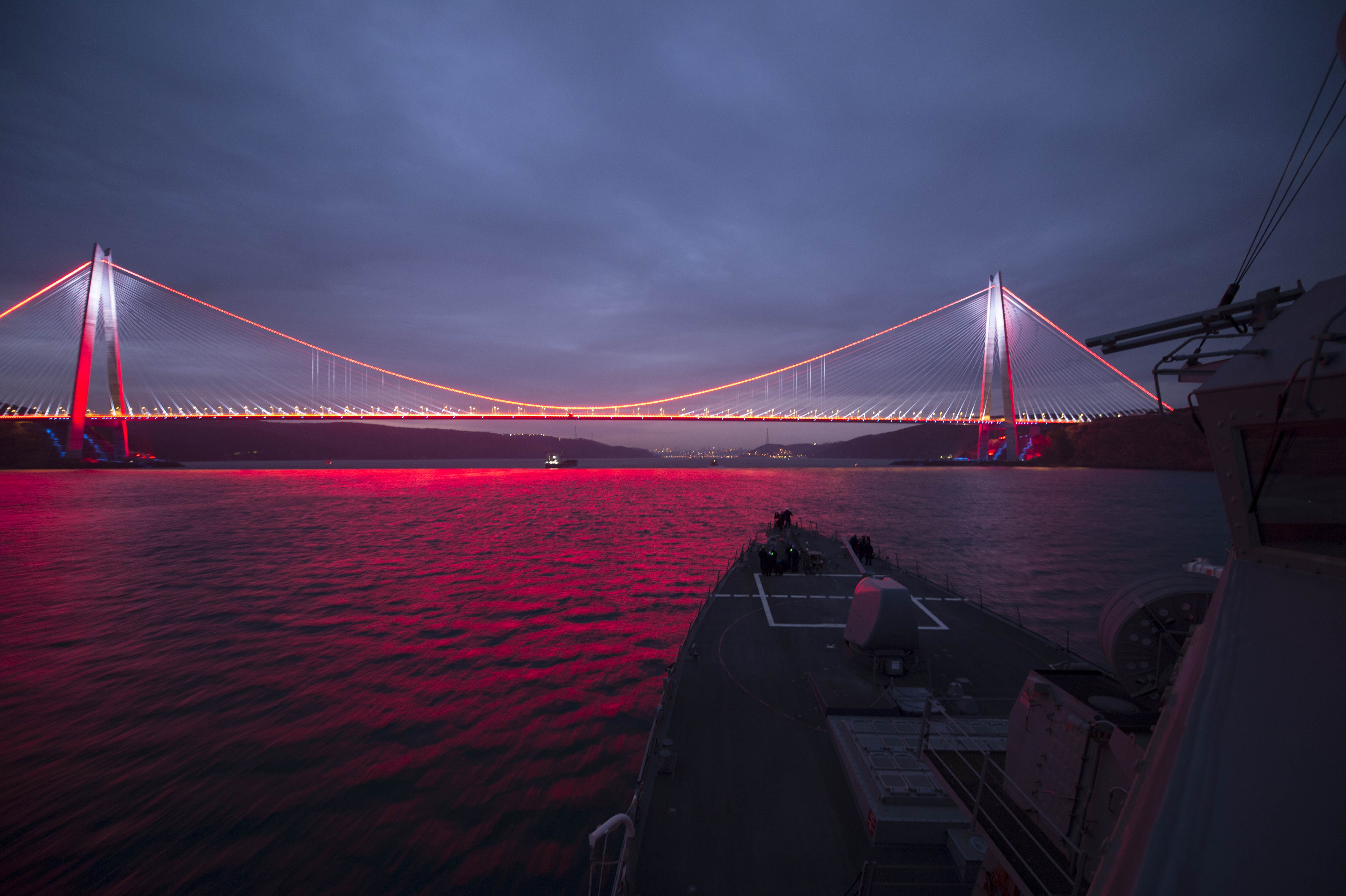 Yavuz Sultan Selim Bridge seen from the guided-missile destroyer USS Carney (DDG 64), approaching the Bosphorus Strait to transit out of the Black Sea. Carney, forward-deployed to Rota, Spain, is conducting a routine patrol in the U.S. 6th fleet area of operations in support of U.S. national security interests in Europe.